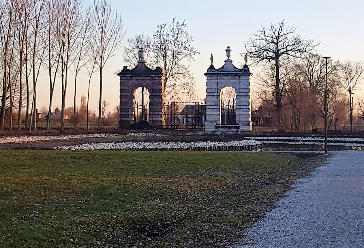 Great pillars of Villa Baglioni in Massanzago.